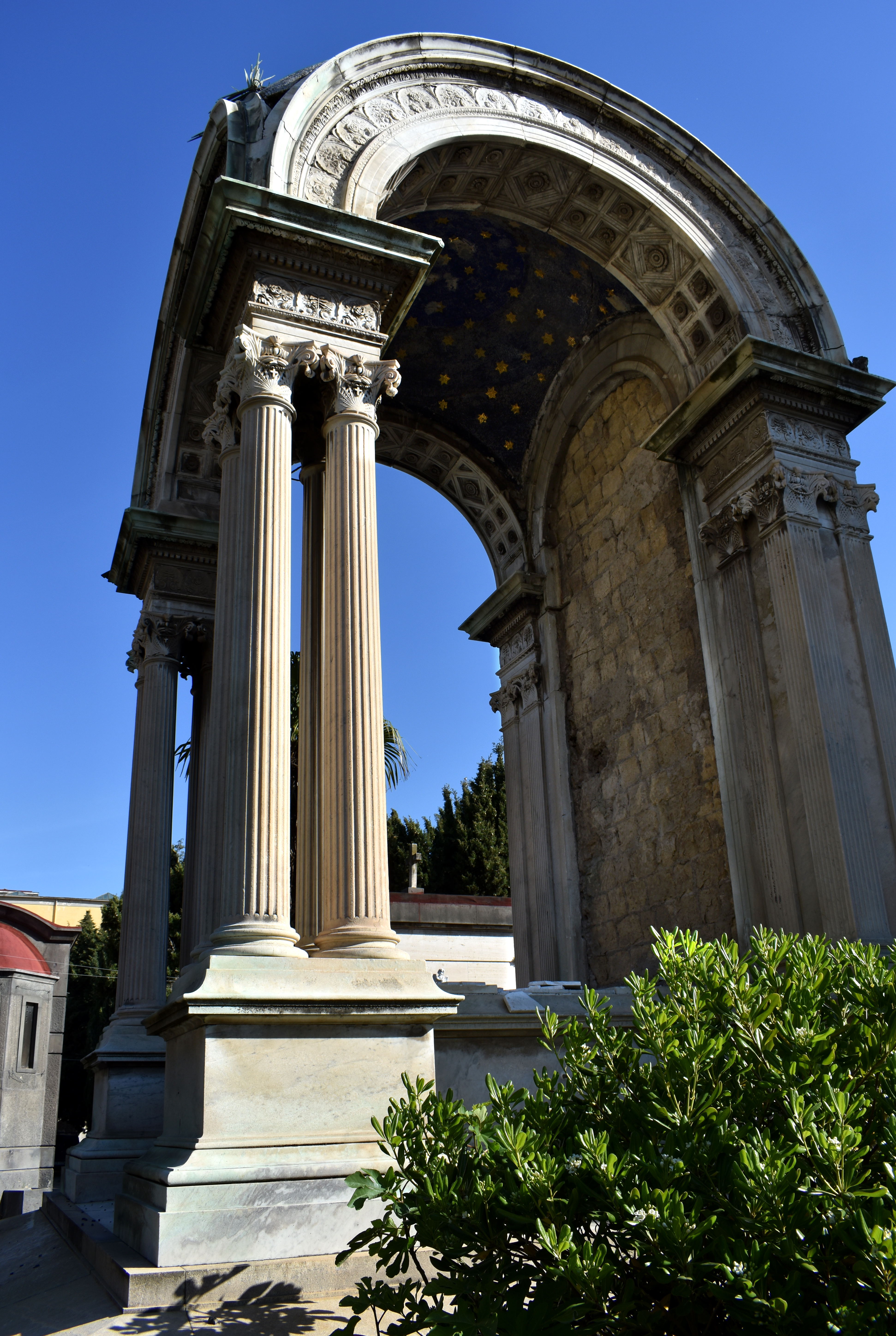 Monumento della Sposa (after theft in November 2017 of bronze bas-relief from rear wall of the portico), Tomb of the Filippo Buchy Family